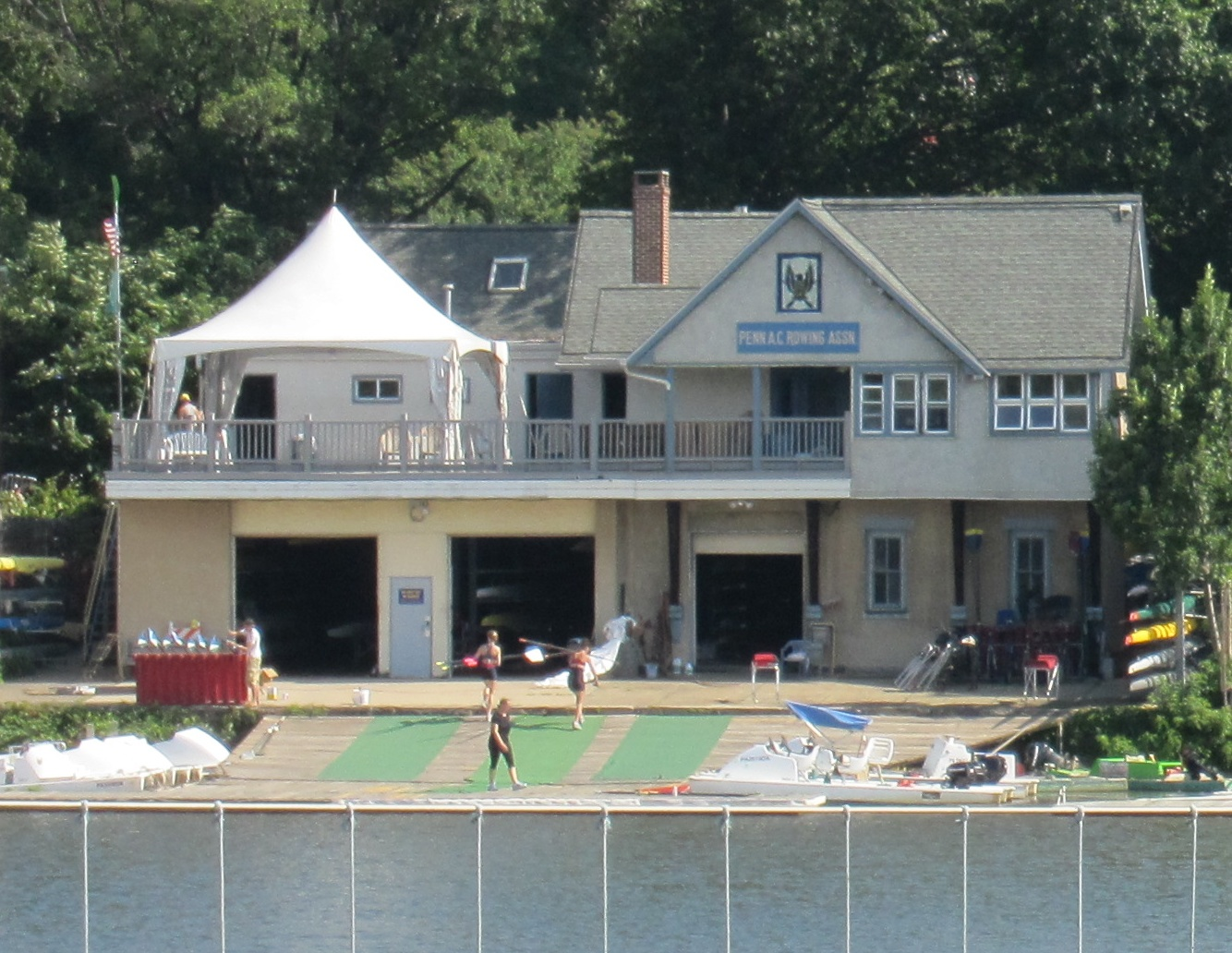 Penn Athletic Club Rowing Association, #12 Boathouse Row, Philadelphia, PA (1871-1892)